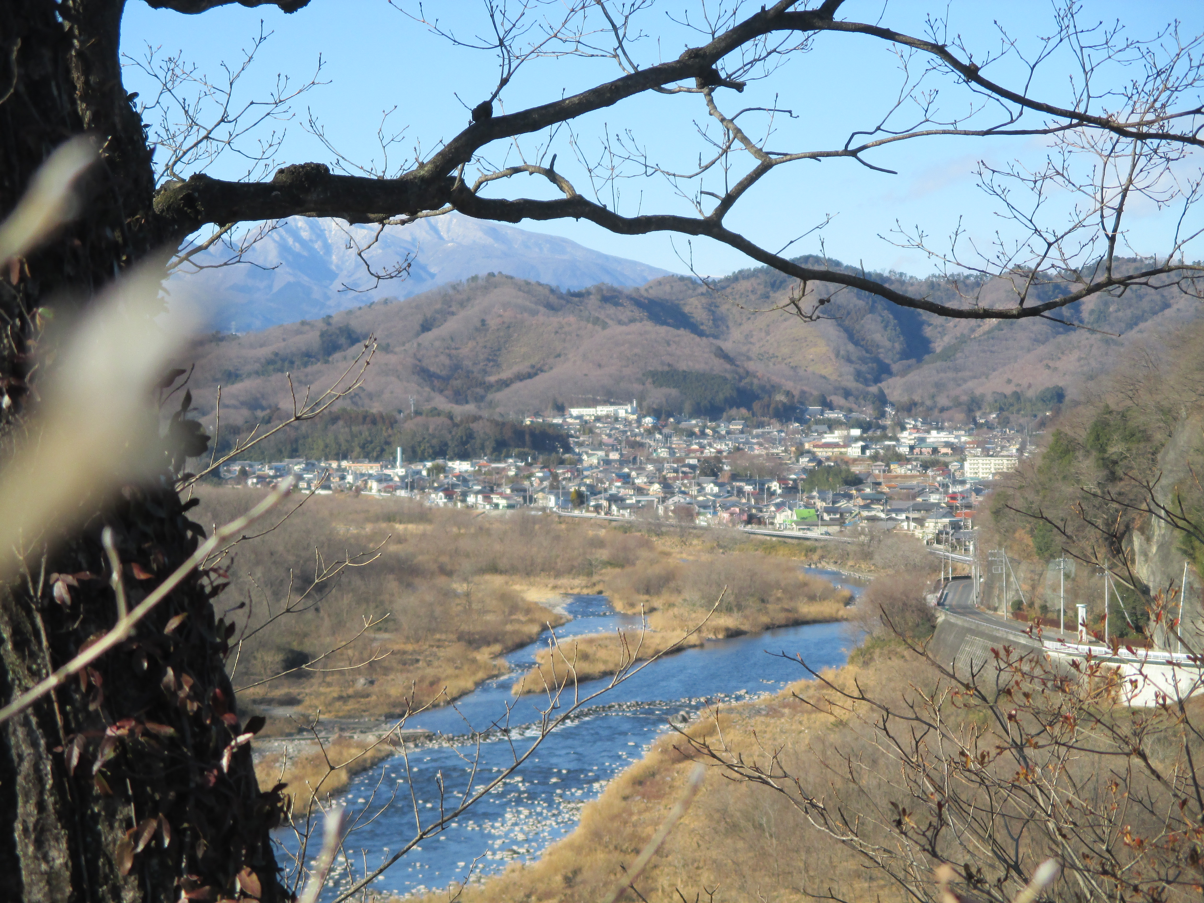 Scenery from the mountaintop of Mt. Fuji in Kiryu City Gunma Prefecture